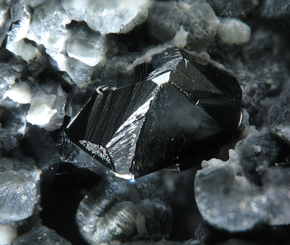 Senaite Locality: Wanni glacier - Scherbadung Mt. (Cervandone Mt.) area, Kriegalp Valley (Chriegalp Valley), Binn Valley, Wallis (Valais), Switzerland (Locality at ) Picture width 1 mm. Collection and photograph Christian Rewitzer